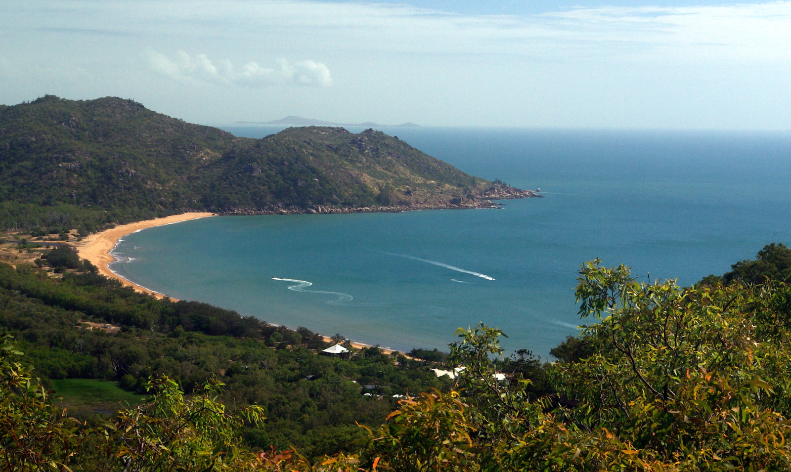 Horseshoe Bay, Queensland, on Magnetic Island, viewed from top of Forts Walk.